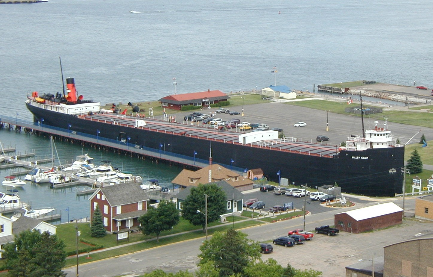 Aerial view of the SS Valley Camp docked as a museum ship.